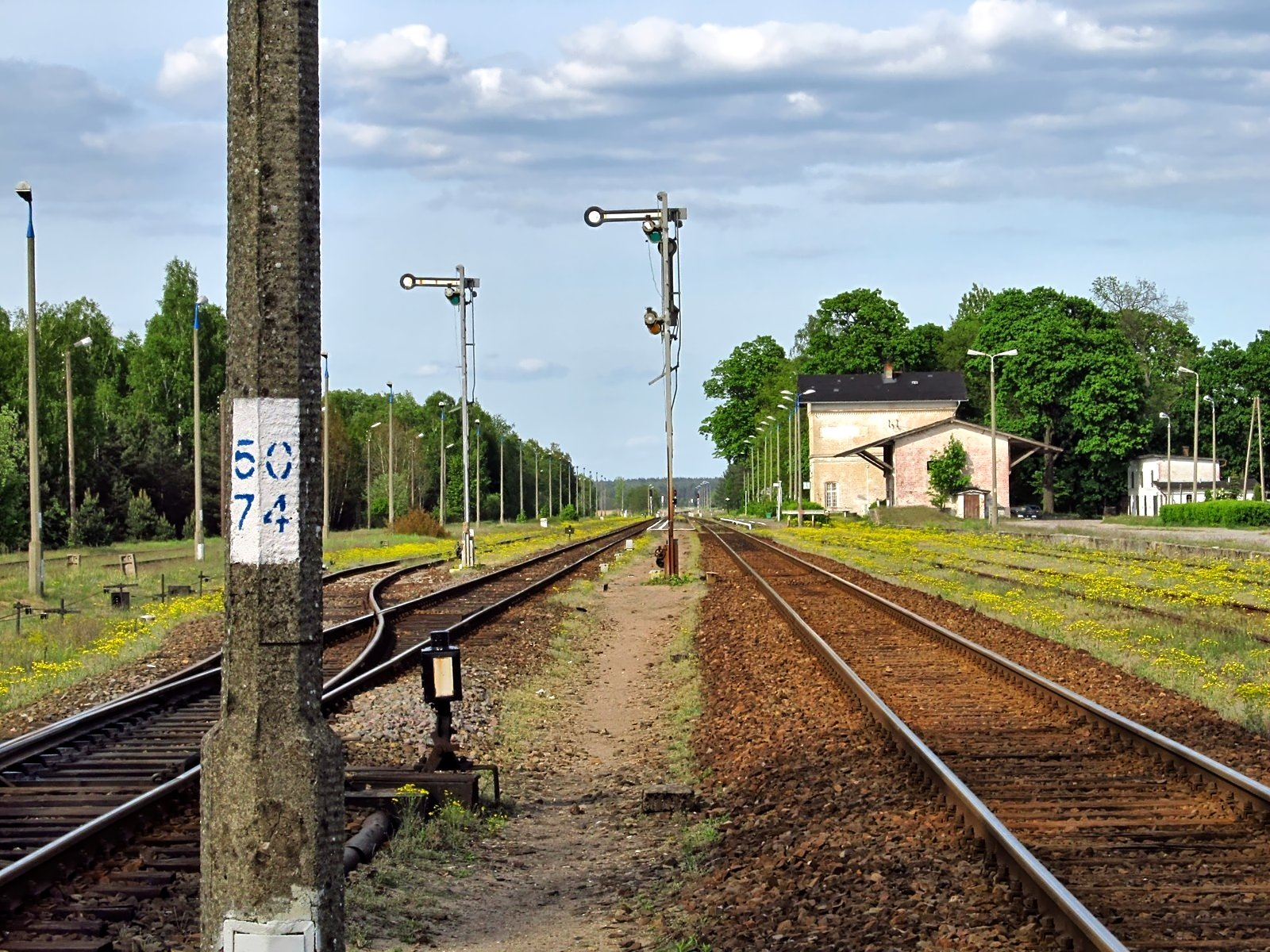 Czarna Woda train station